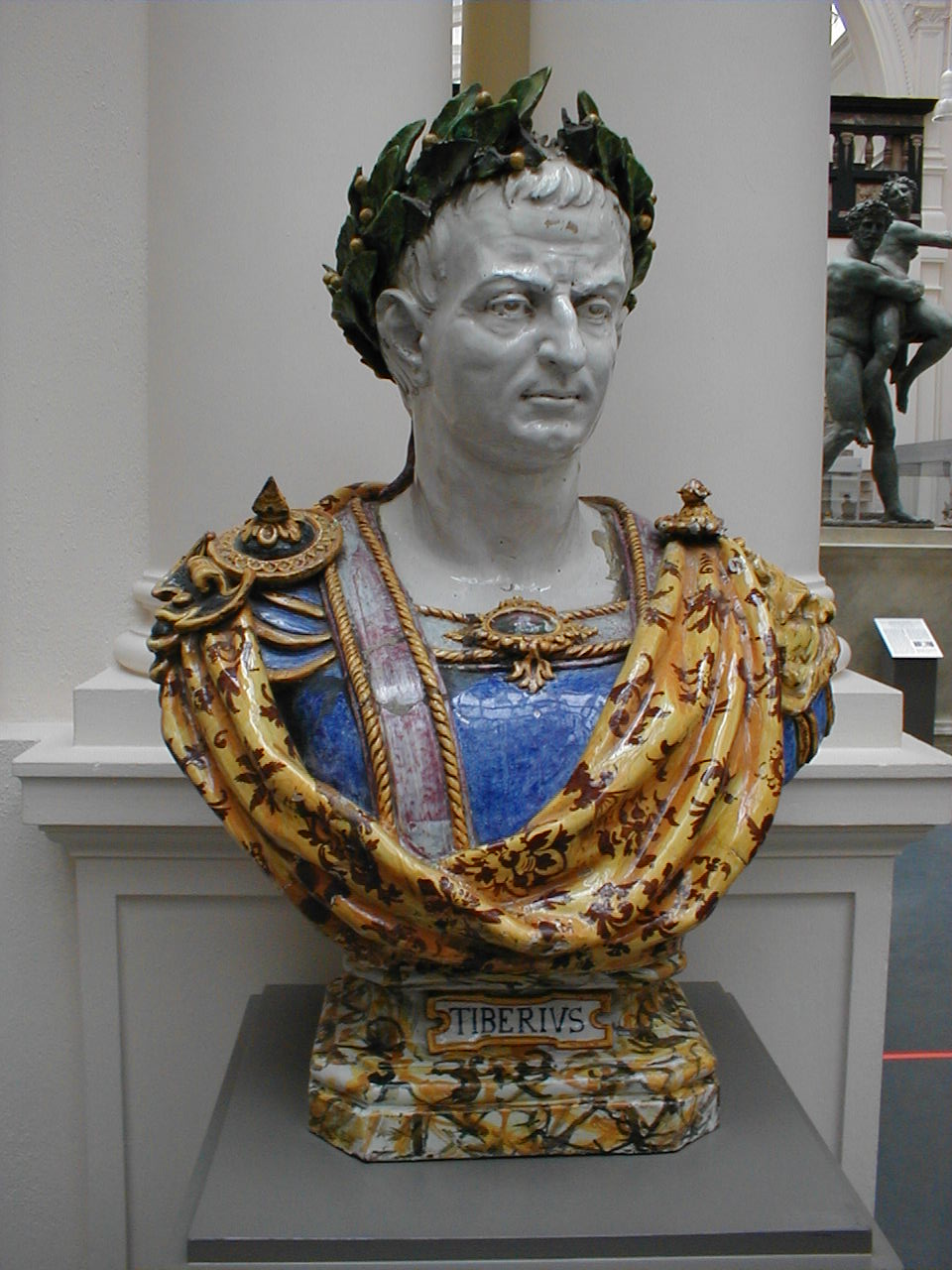 Tiberius enamelled terracotta bust at the Victoria and Albert Museum. According to plaque it is probably by Angelo Minghetti and made after en:1849.